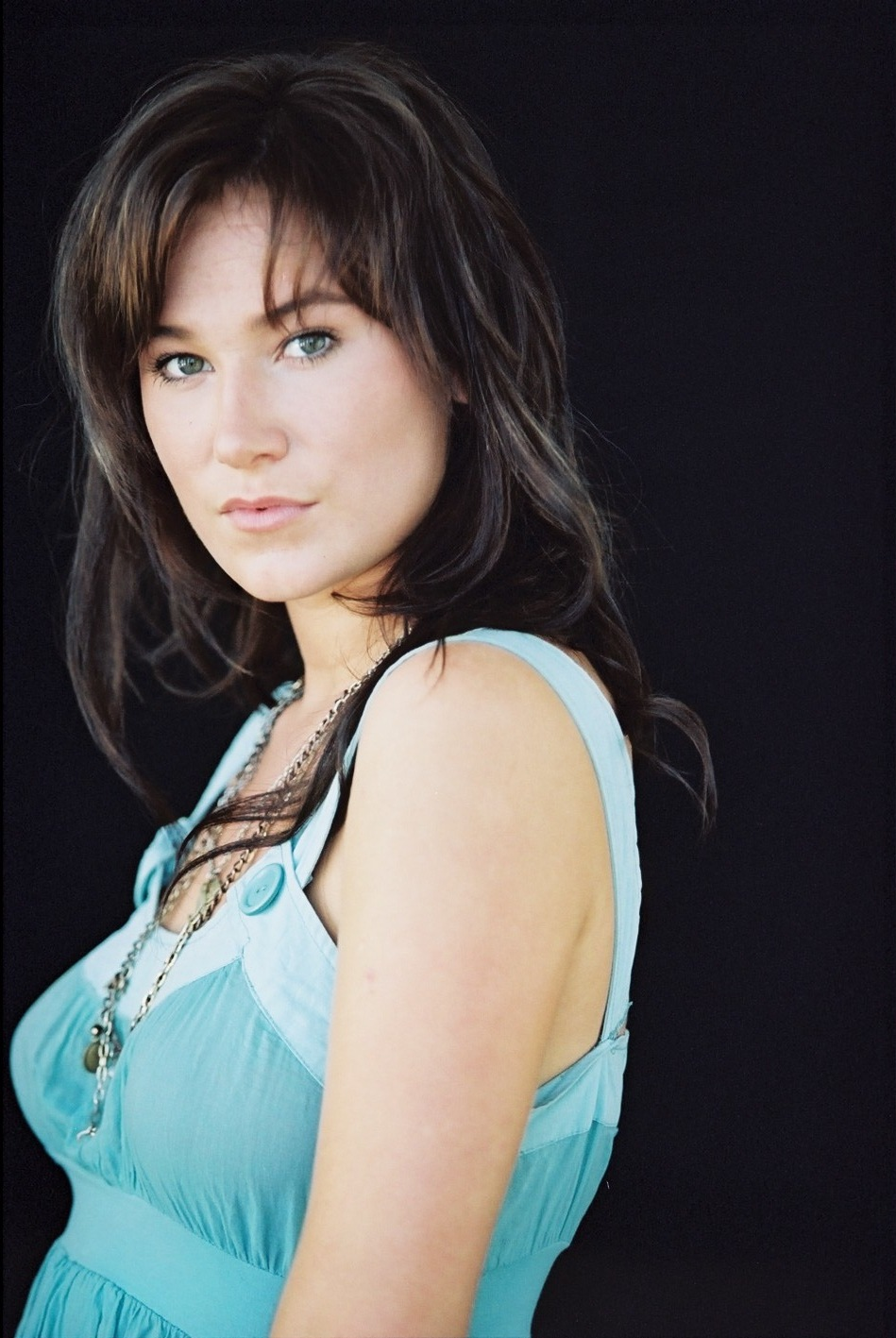 Colleen Rennison photograph by Rob Daly